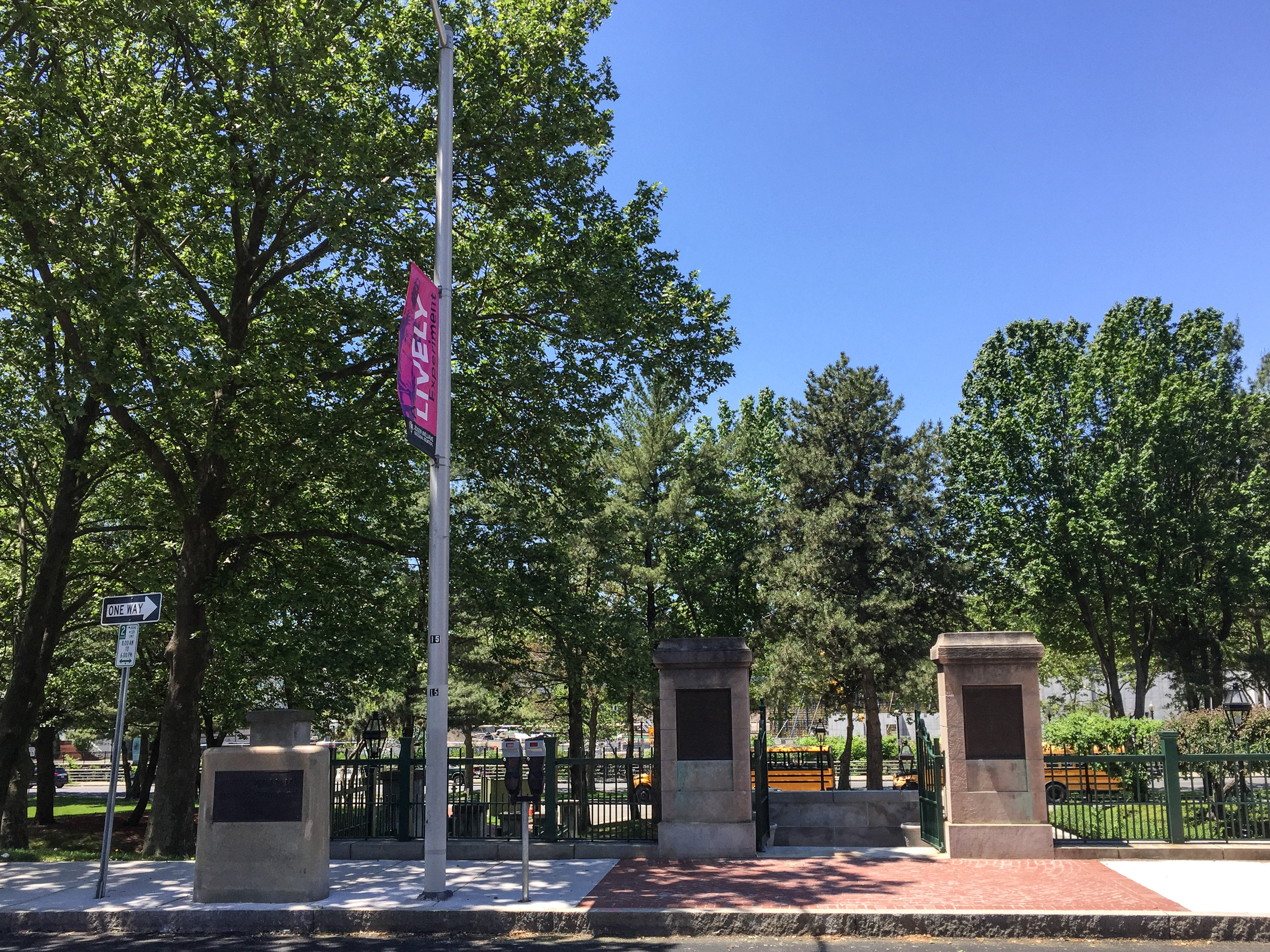 Roger Williams National Memorial, Providence Rhode Island